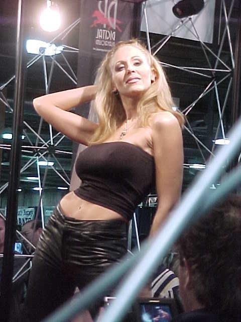 Julia Ann at AVN IA2000 (Internext Expo, part of AVN Expo), Jan 07 2000